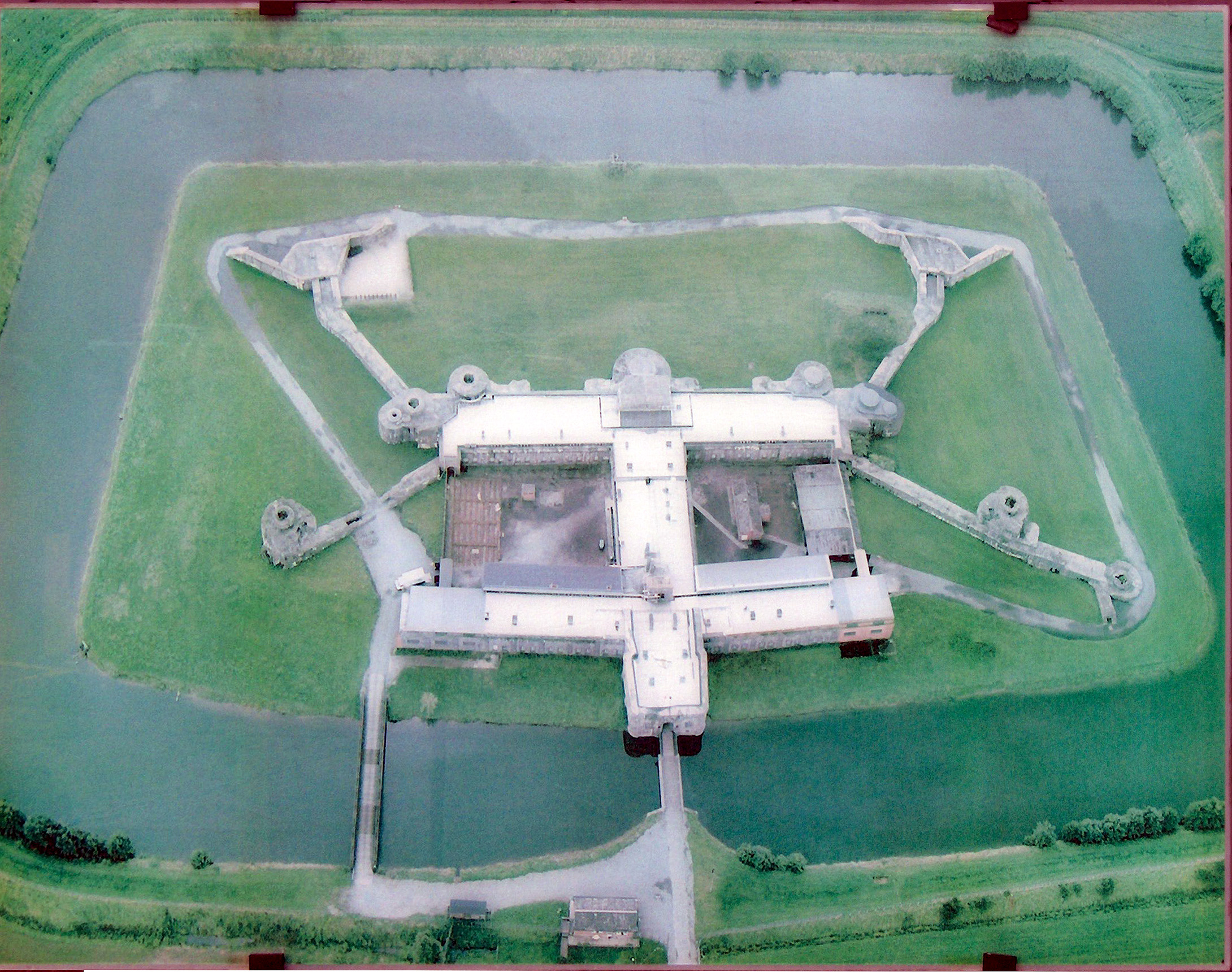 Digitally enhanced view of the site; Fort van Breendonk, Belgium